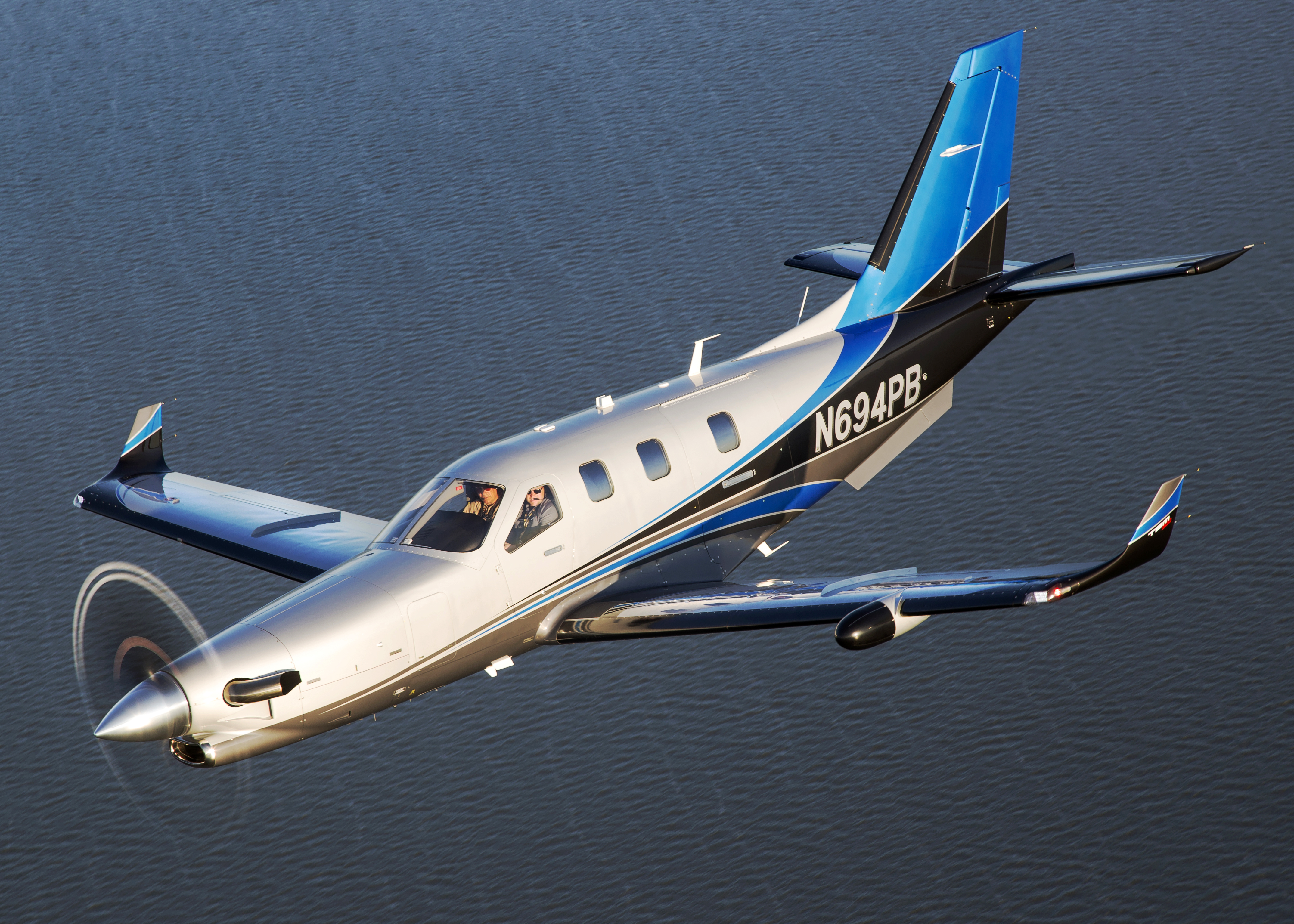 A Socata TBM 900 photographed in flight. The photo was taken in 2015 during the EAA AirVenture Oshkosh event. It was shot mid-air from a Beechcraft A36 Bonanza.